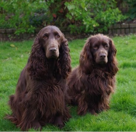 This shows the large size difference between a male Field Spaniel and a male Cocker Spaniel. They are usually up to 10 kgs different in weight.